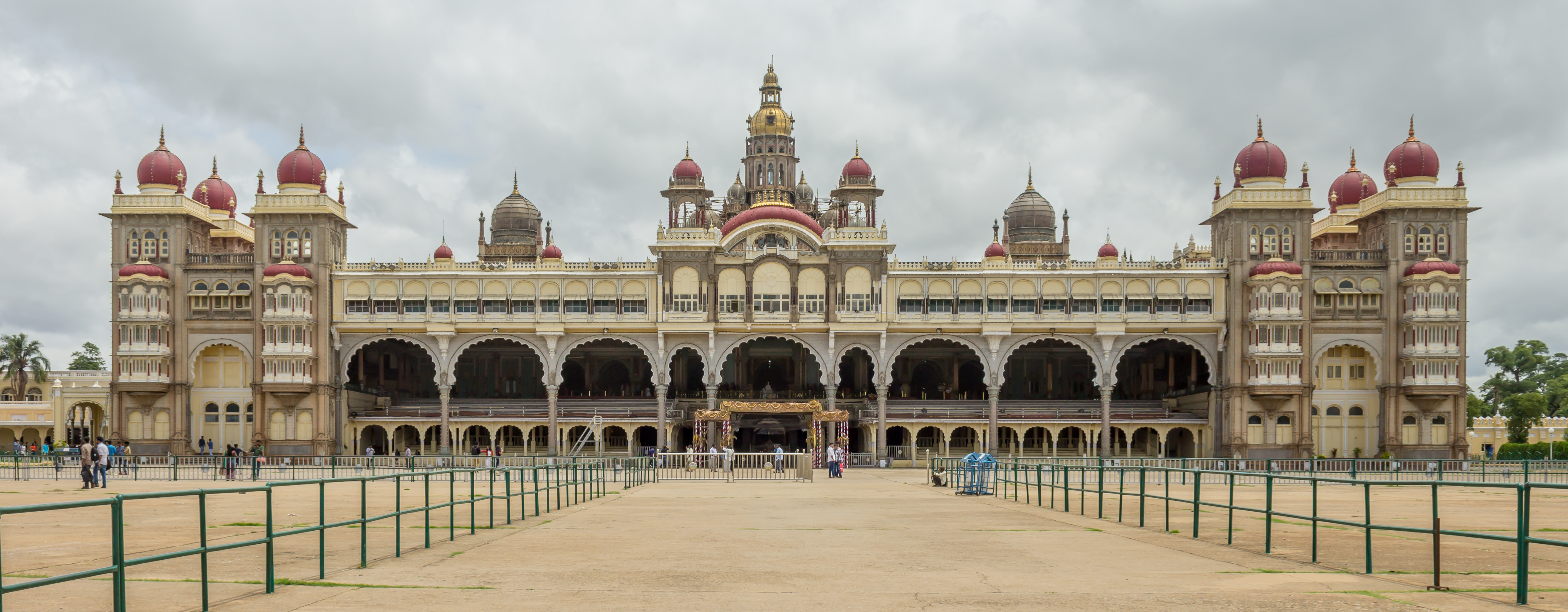 Front face of the Mysore palace